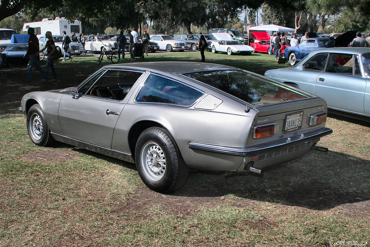 1973 Maserati Indy - silver - rvl